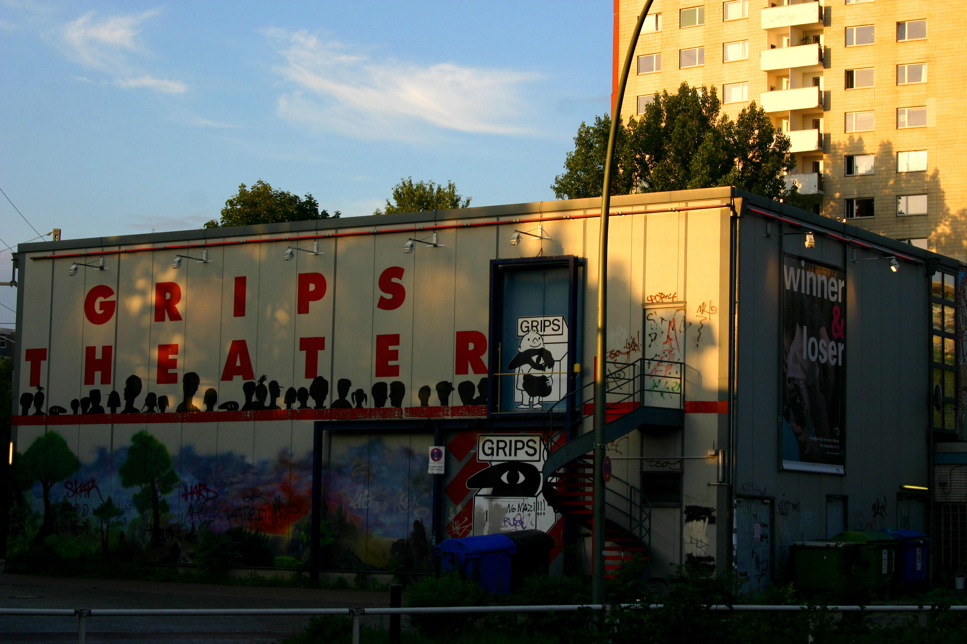 The Grips-Theater at Hansaplatz in Berlin